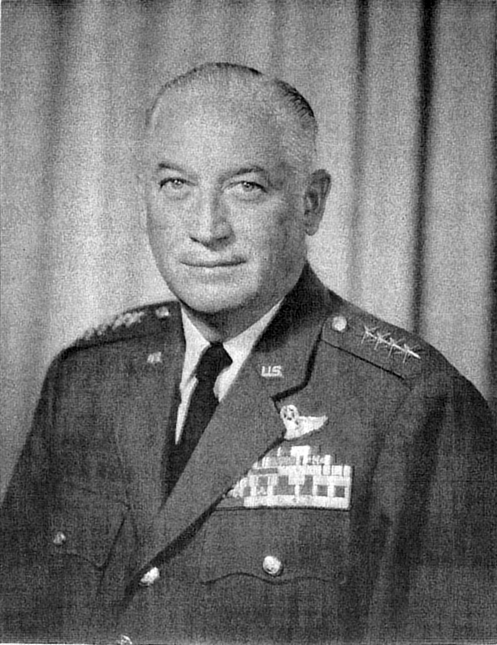 GEN Emmett O'Donnell, Jr.. Original in color. NARA Citation 342-B-12-32-1-K-13398